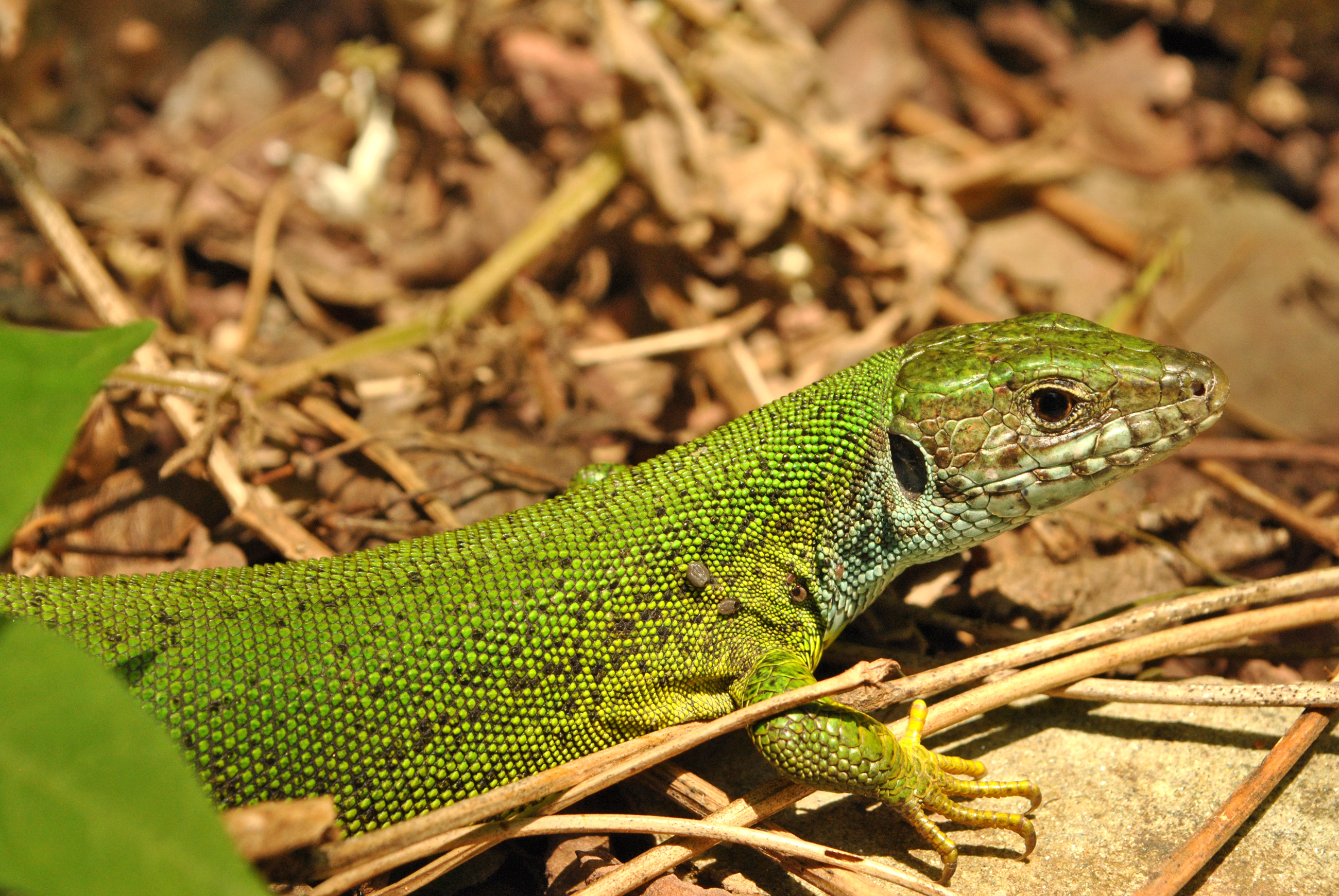 Lacerta viridis in the village of Zhnyborody